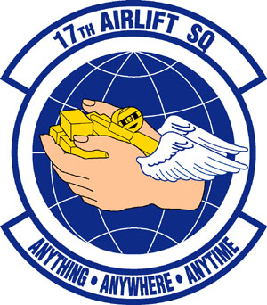 17th Airlift Squadron Emblem Source: 437th Airlift Wing Public Affairs.